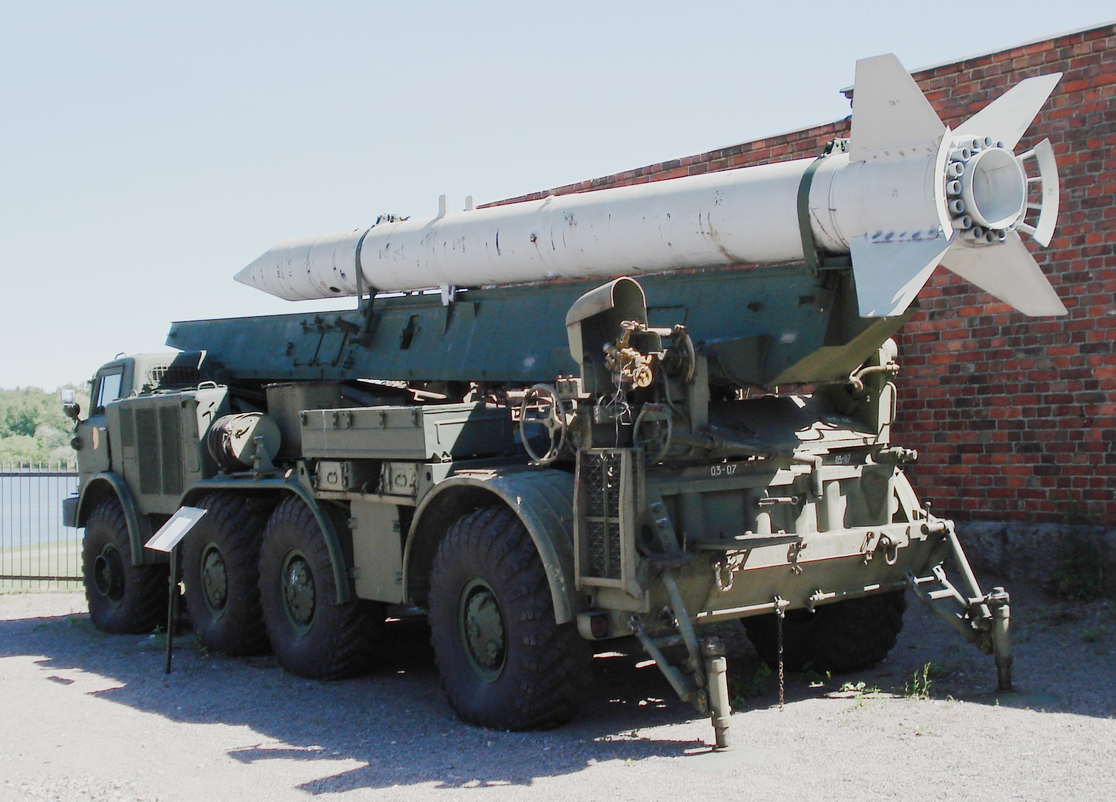 Soviet FROG-7B (Luna-M) missile system, displayed in Hämeenlinna Artillery Museum. This was a tactical weapon, with a range from 10 to 65 km and a 450 kg warhead, conventional, chemical or nuclear. Photo taken on June 18, 2006. Source: Photo by me, User:Balcer.